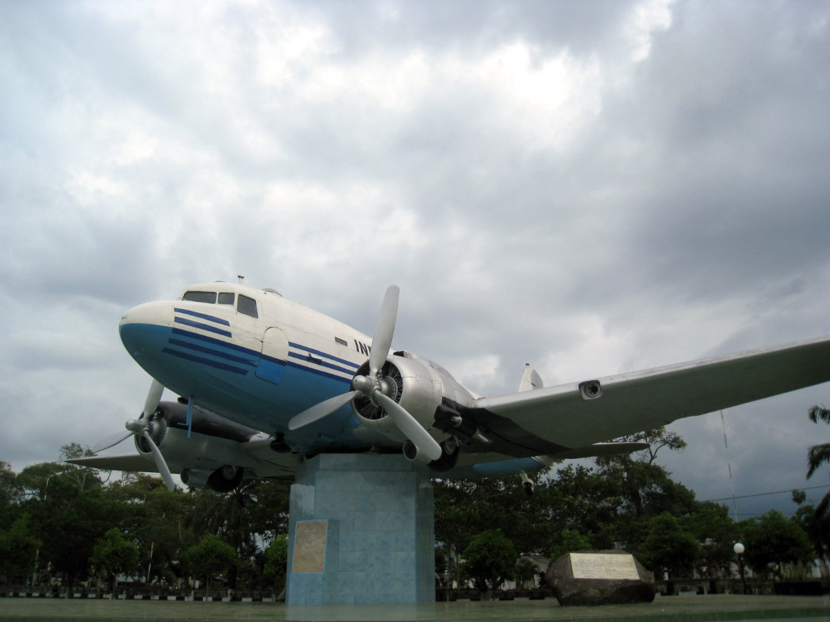 Model of plane of Seulawah RI 001